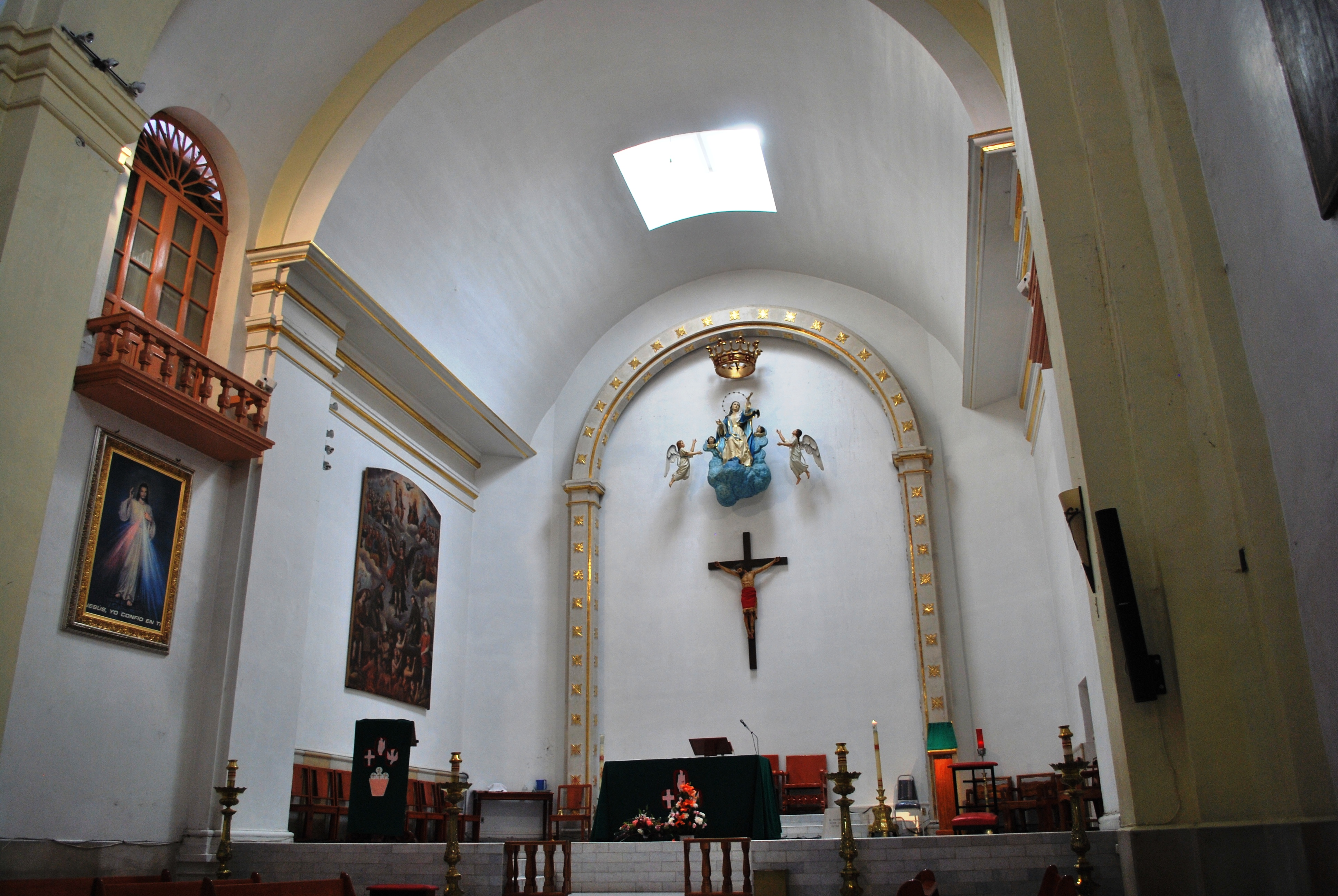 Main altar of the La Asuncion Parish in Pachuca, Hidalgo, Mexico